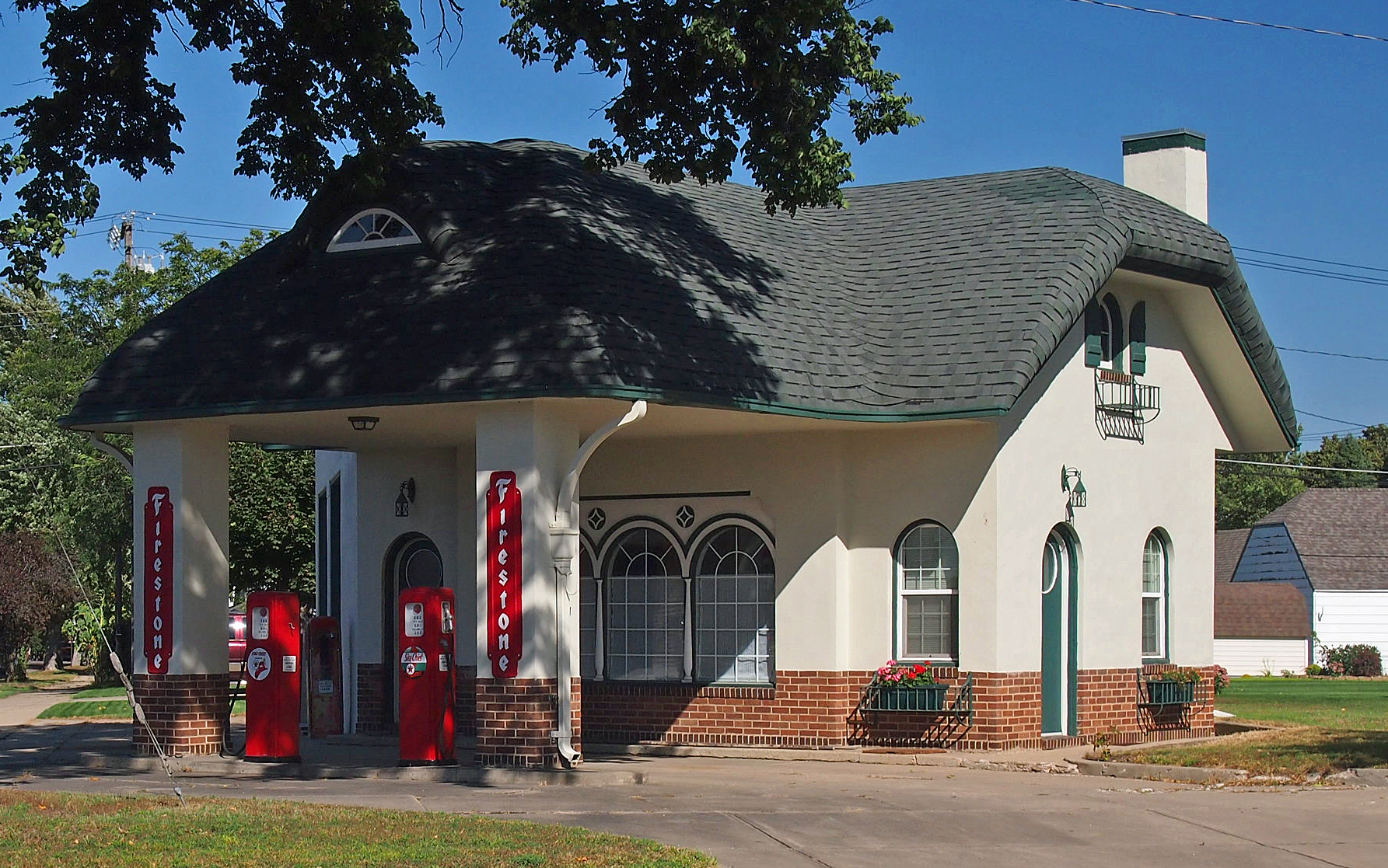 Lundring Service Station, 201 1st St E, Canby, Minnesota, USA. Viewed from the southwest.